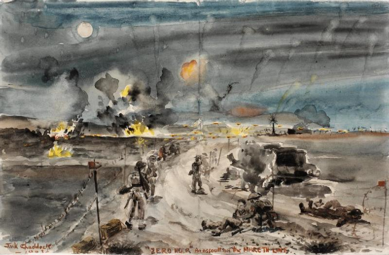 Zero Hour- the Mareth Offensive, 1943. Cameron Highlanders image: A view of the desert at night. The sky is filled with smoke and explosions. A road stretches out into the distance with fires lit on the ground on either side. Soldiers walk away from the viewer, past injured men lying injured on the side of the road.